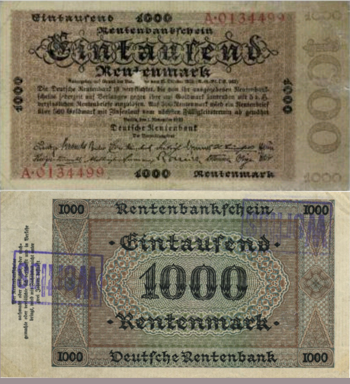 1000 Rentenmark from 1923-11-1 equivalent to 1000 trillions Papermark from inflation time